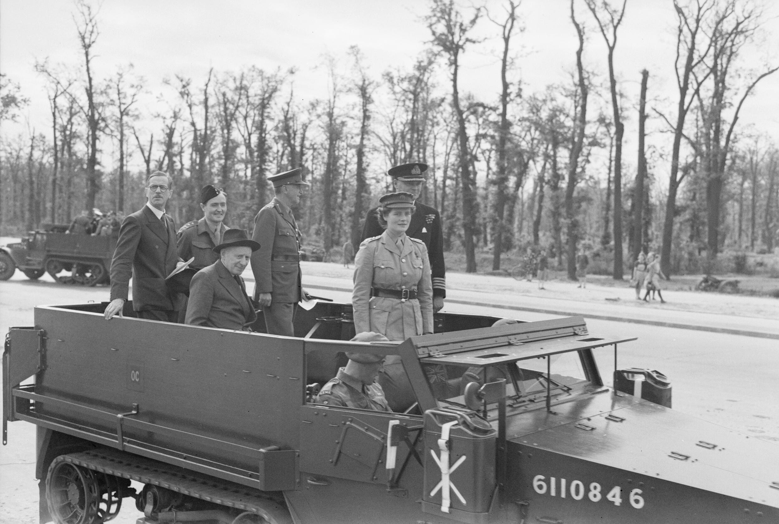 British Victory Parade in Berlin Junior commander Mary Churchill riding in a half-track vehicle during the inspection